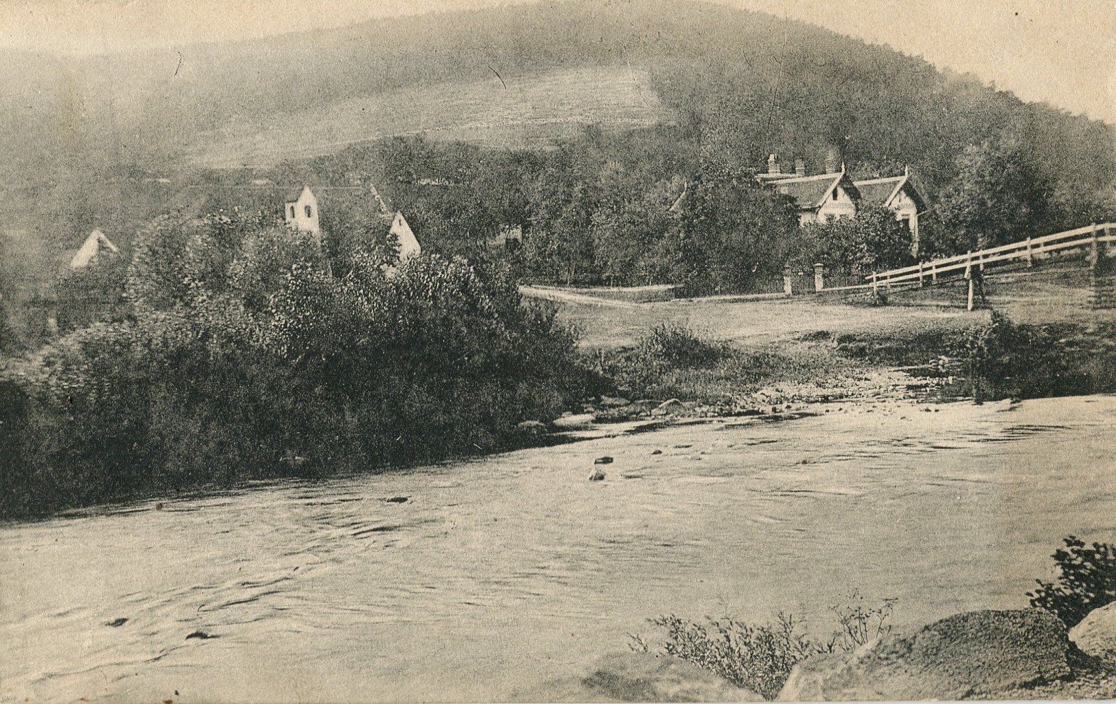 Stallegg, Lower Austria, Austria. Postcard, ca. 1920.